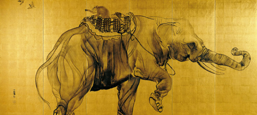 Elephants. Ink on gold-leafed paper. (166.3 x 372.6 cm each). Yamatane Museum of Art